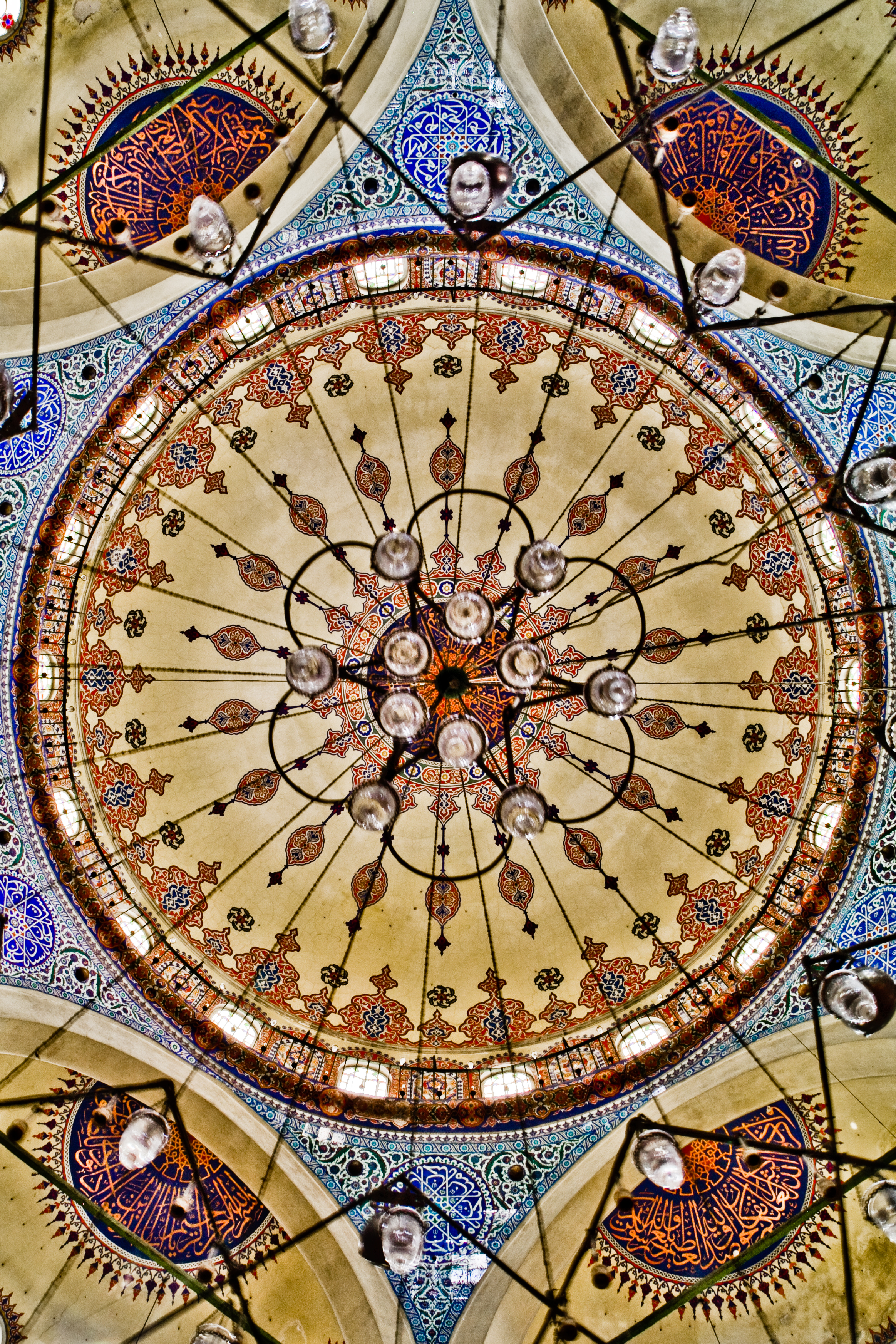 Sokollu Mehmet Pasha Mosque Dome Painting Photographed from the floor upwards in September 2010 by michaelkowalczyk.eu